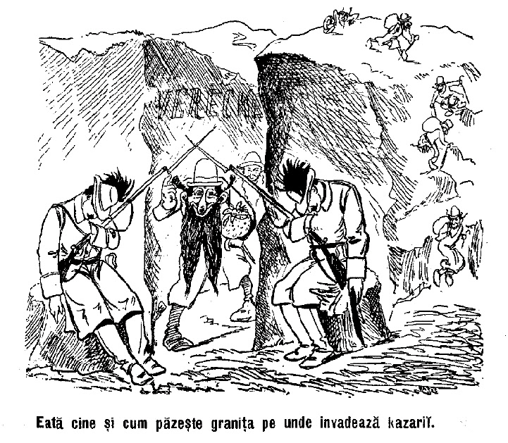 Antisemitic and anti-Hungarian cartoon, published in the Romanian-language Gura Satului newspaper, in Austria-Hungary. Stereotyped Ashkenazi Jews cross over from the Ukraine (Russian Empire) and into Austria-Hungary, marked Verecke ("Veretskyi"), while the Hungarian border guards are sound asleep. Caption: Eată cine şi cum păzeşte graniţa pe unde invadează kazariĭ ("Here are those who guard the border whence the Khazars invade, and such is how they do it").